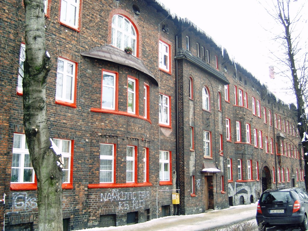 Szopienicka Street in Katowice-Nikiszowiec